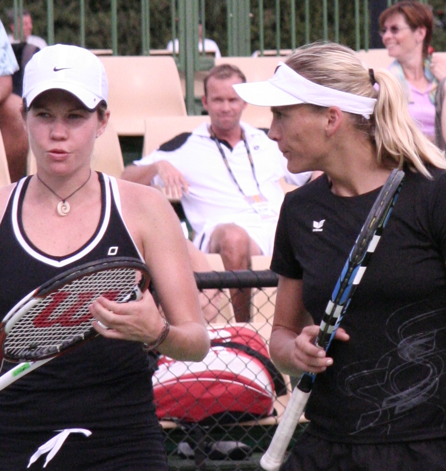 Birnerova, Bammer at the 2007 Australian Open.